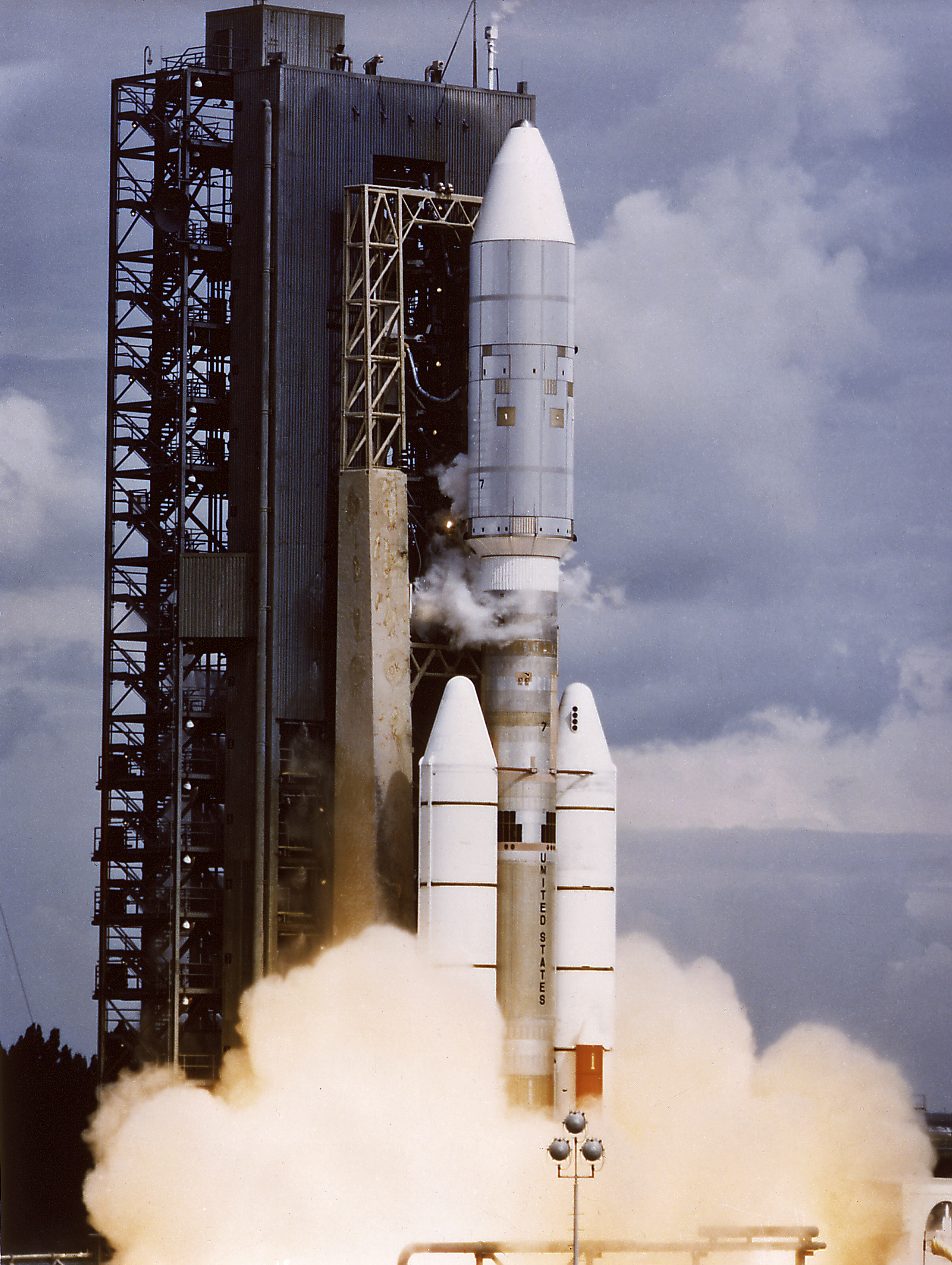 The Voyager 2 aboard Titan III-Centaur launch vehicle lifted off on August 20, 1977. The Voyager 2 was a scientific satellite to study the Jupiter and the Saturn planetary systems including their satellites and Saturn's rings.